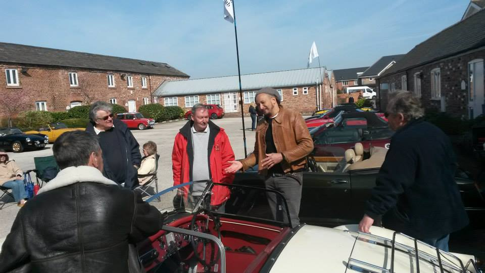 Fuzz Townshend talking to a visitors from Potteries and South Cheshire MG Owners' Club at John Woods Motorcare's Open Day 2015